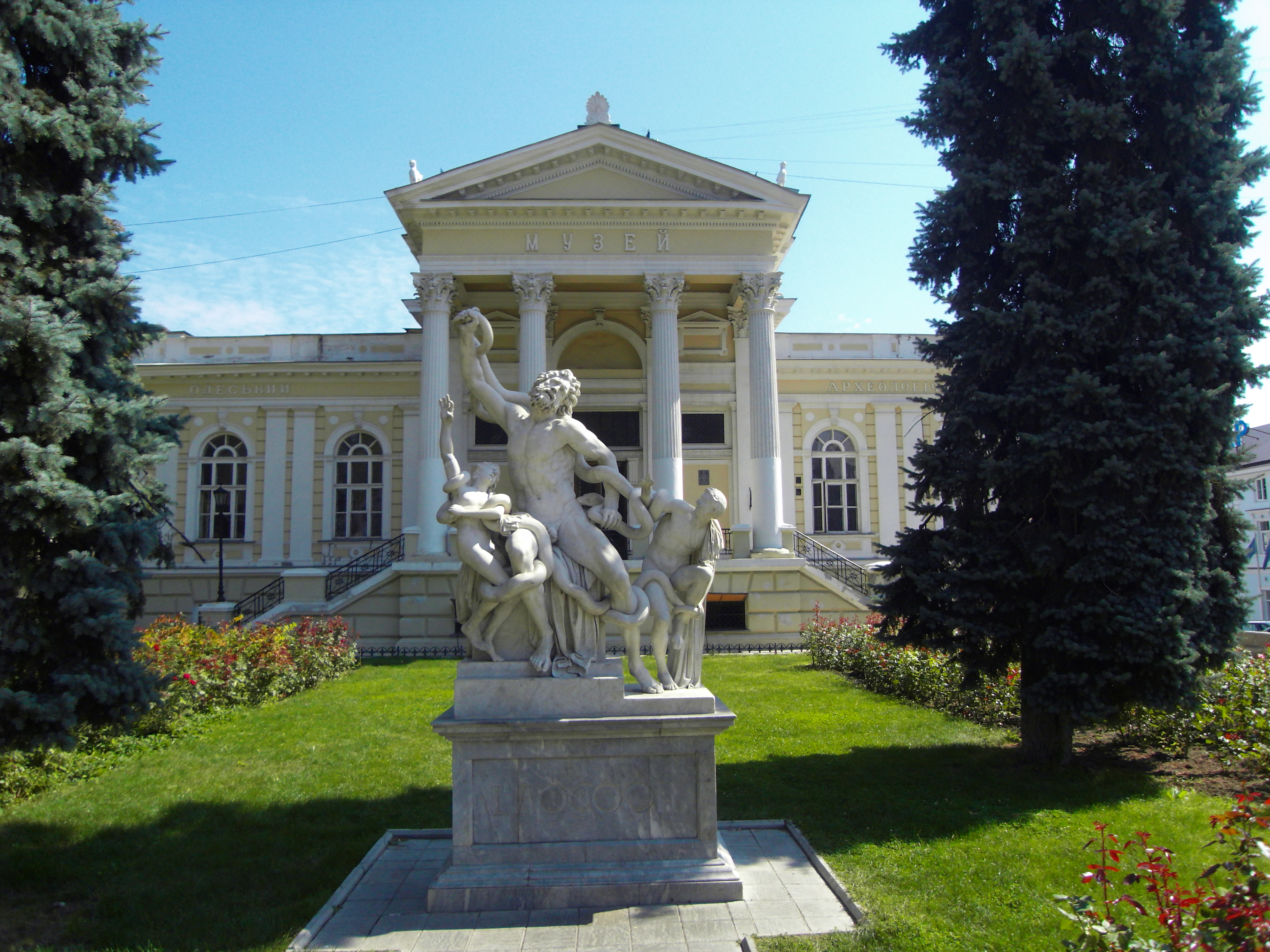 Odessa arheological museum